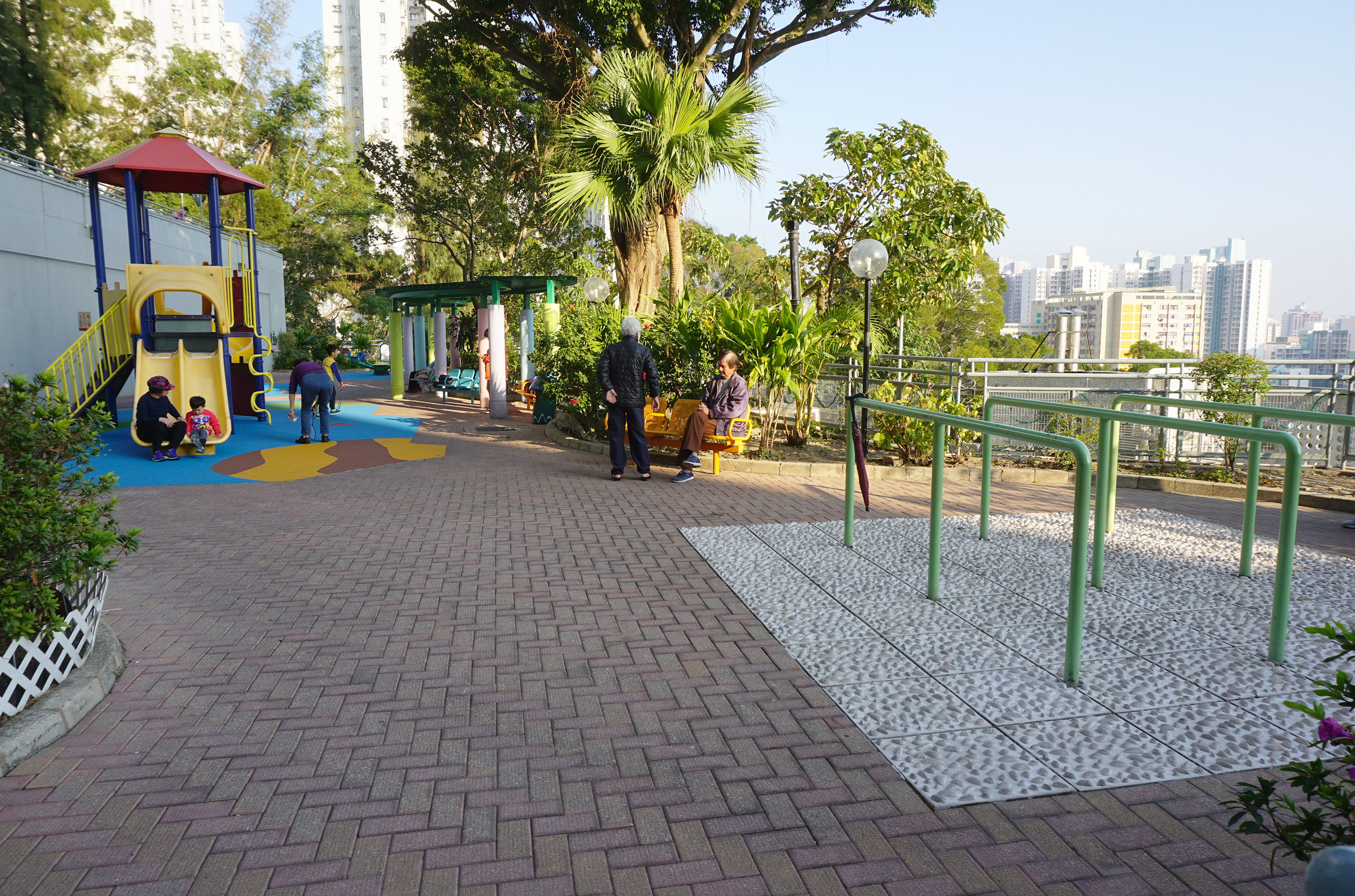 Tsui Chuk Garden in Chuk Yuen, Hong Kong.